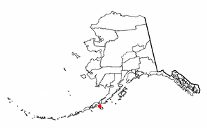 Adapted from Wikipedia's AK borough maps by Seth Ilys.